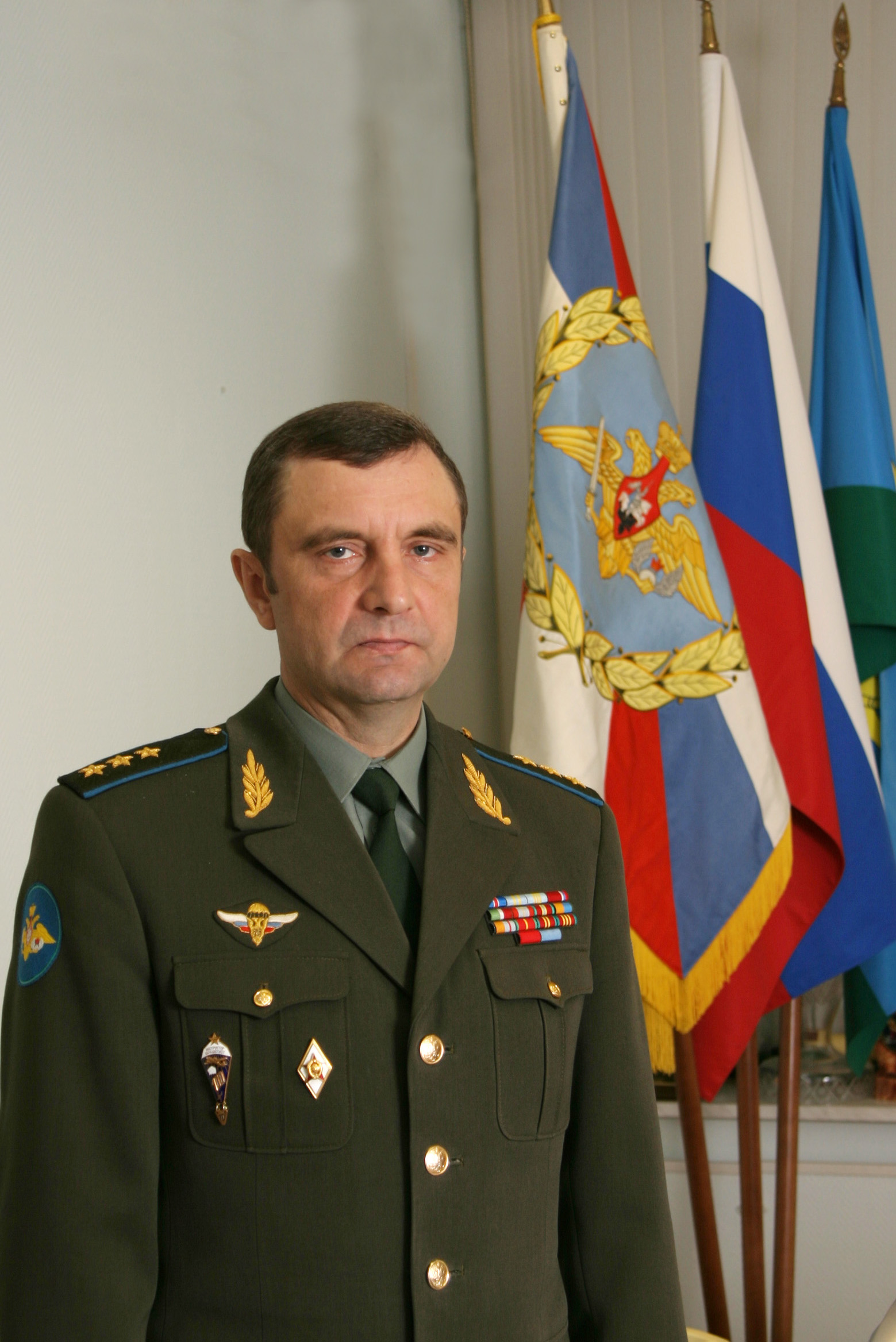 16th Russian Airborne Troops Commander-in-Chief, Col. Gen. Alexander Kolmakov (in office: September 8, 2003 – November 2007.)